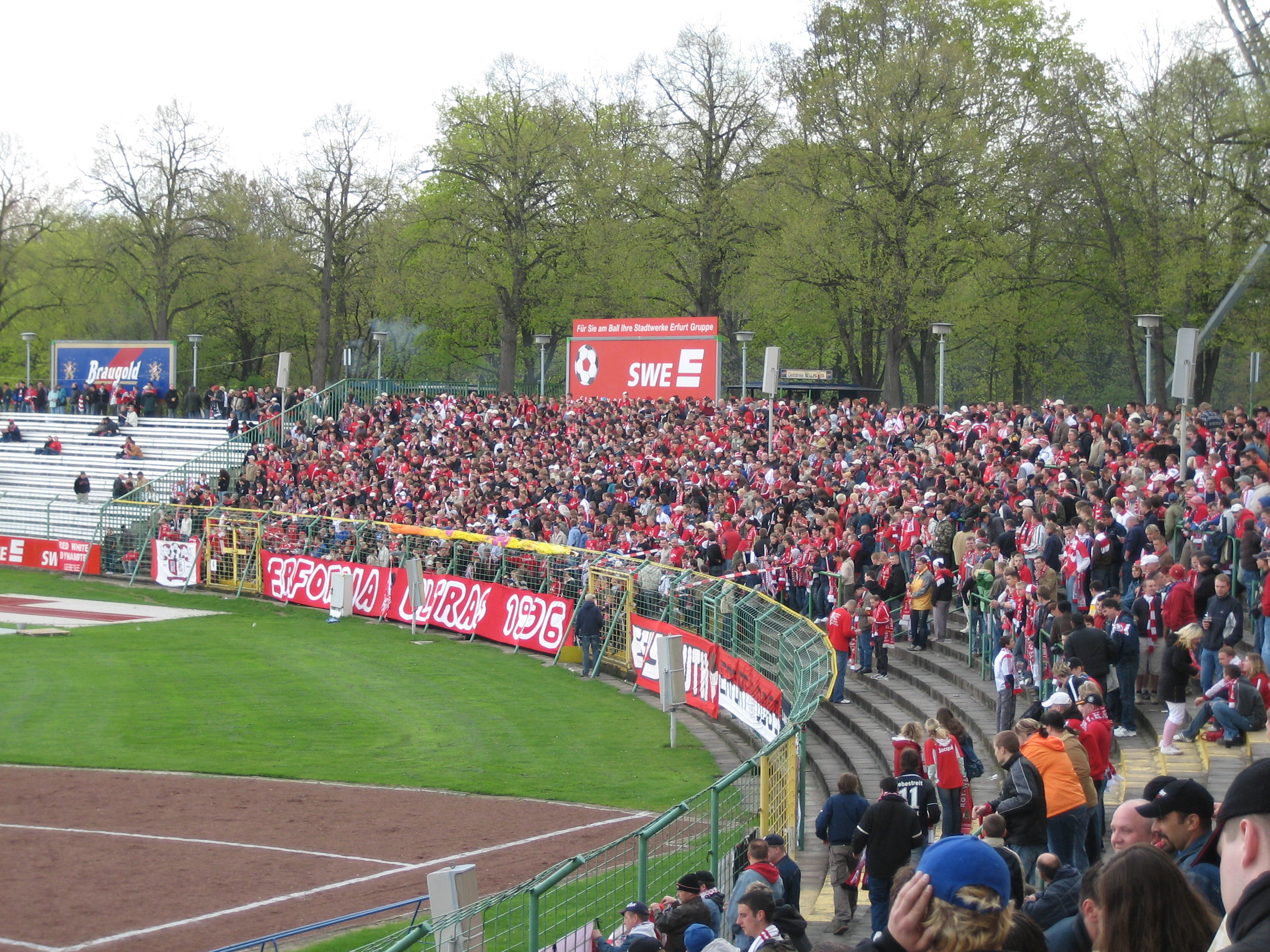 This picture shows the FC Rot-Weiß Erfurt supporter section in the Steigerwaldstadion. It is about an hour before kick-off. Steigerwaldstadion is a football ground in Erfurt, Germany.